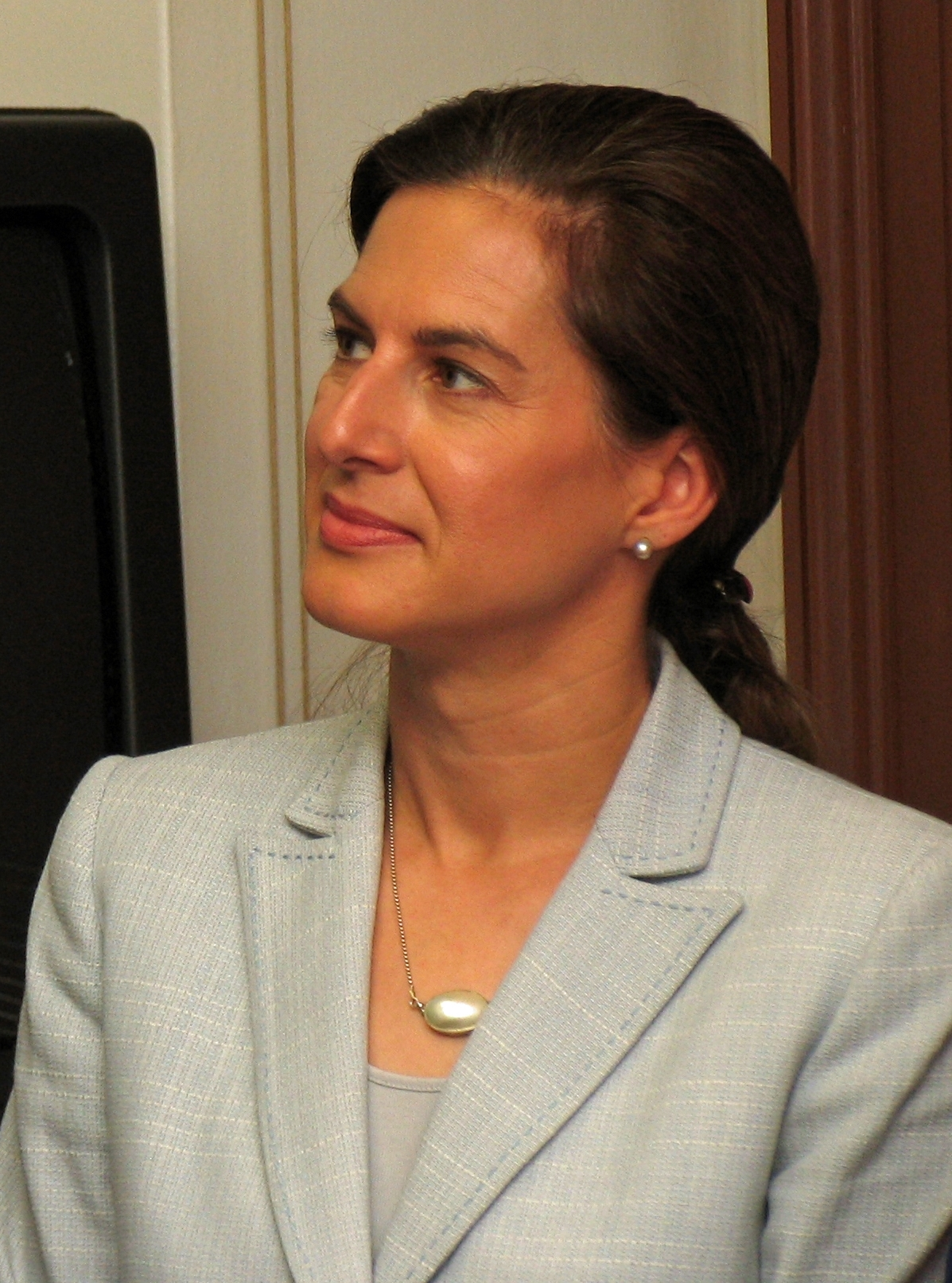 Susan Bysiewicz, Secretary of the State, at Dem Town Cmte get out the vote rally in October 2008 in Simsbury CT